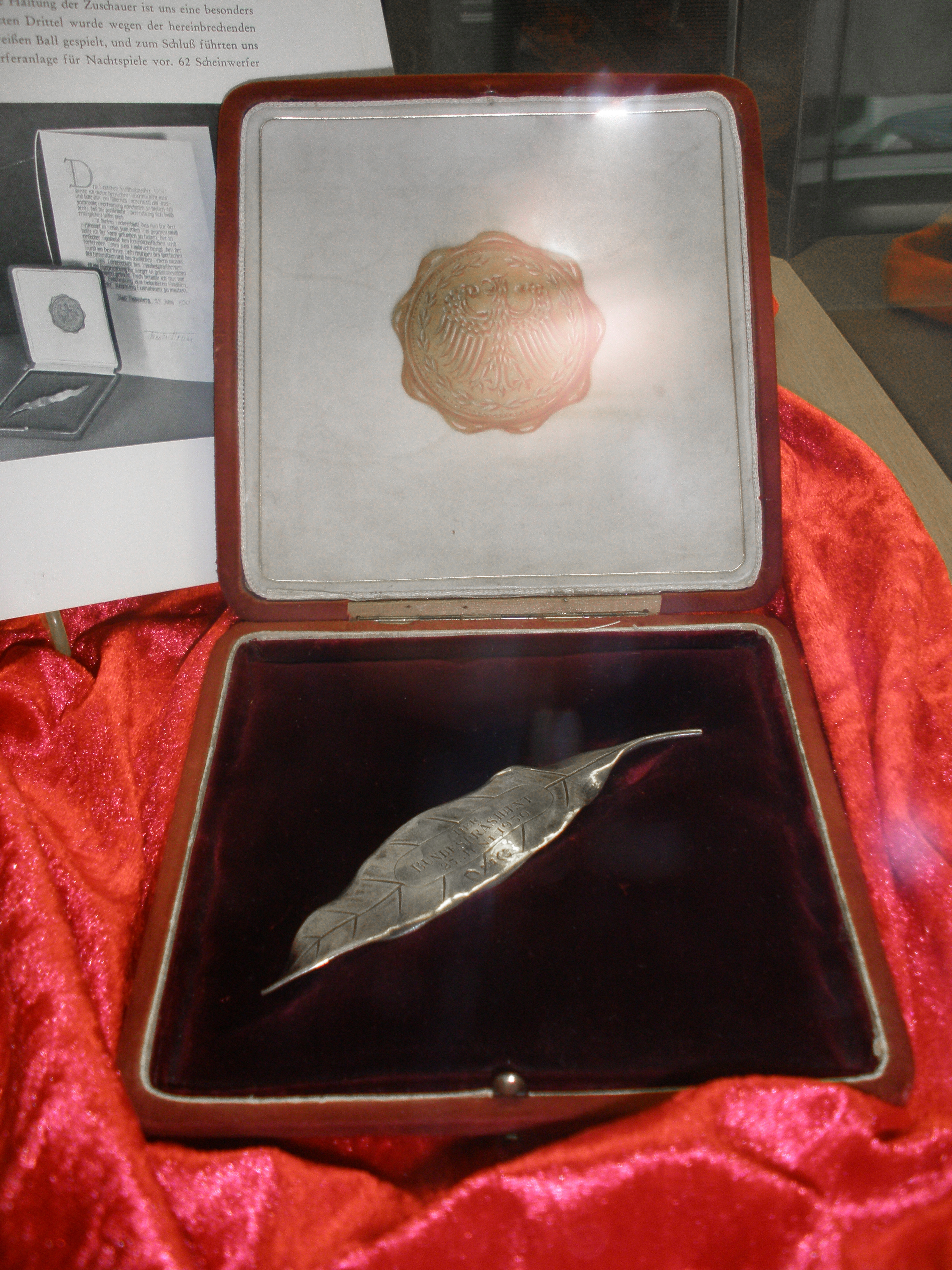 The first Silberne Lorbeerblatt which was awarded to a team. Awarded to the incumbent German football Champion VfB Stuttgart on 25 June 1950 by the German president Theodor Heuss.